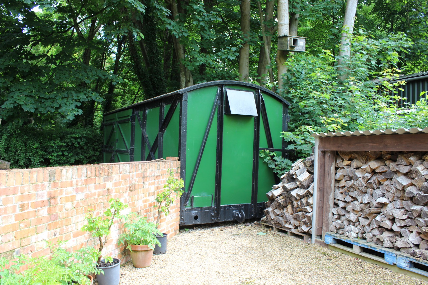 Old good wagon Droxford railway station, Droxford, Hampshire.